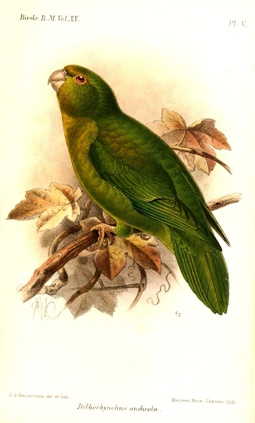 Bolborhynchus andicola = Bolborhynchus orbygneisus, Andean Parakeet